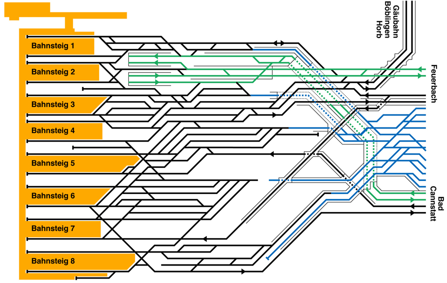 Track Layout of Stuttgart Central Station as of 2009